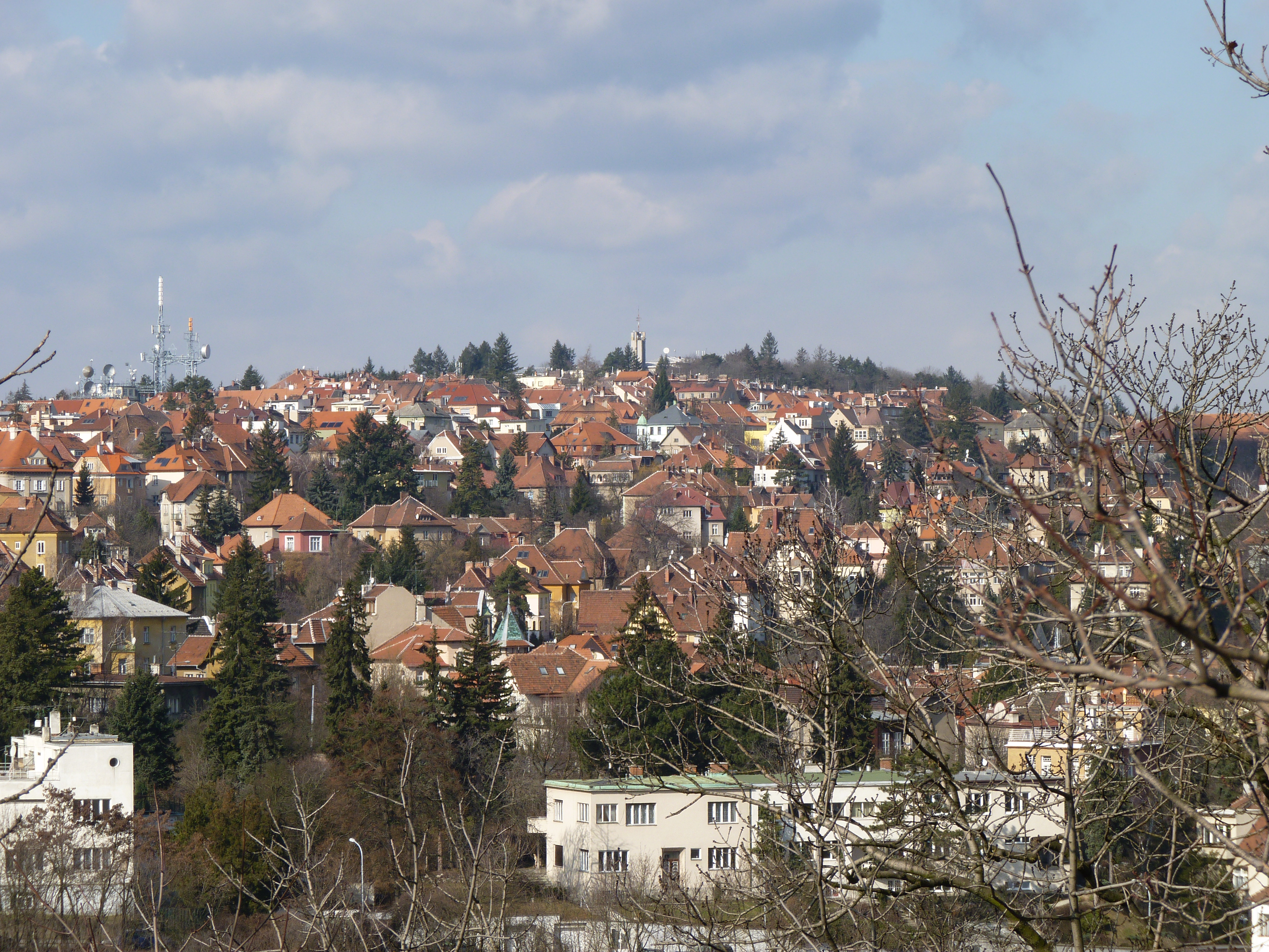 Žlutý kopec ("Yellow hill"), Brno, South Moravian Region, Czech Republic